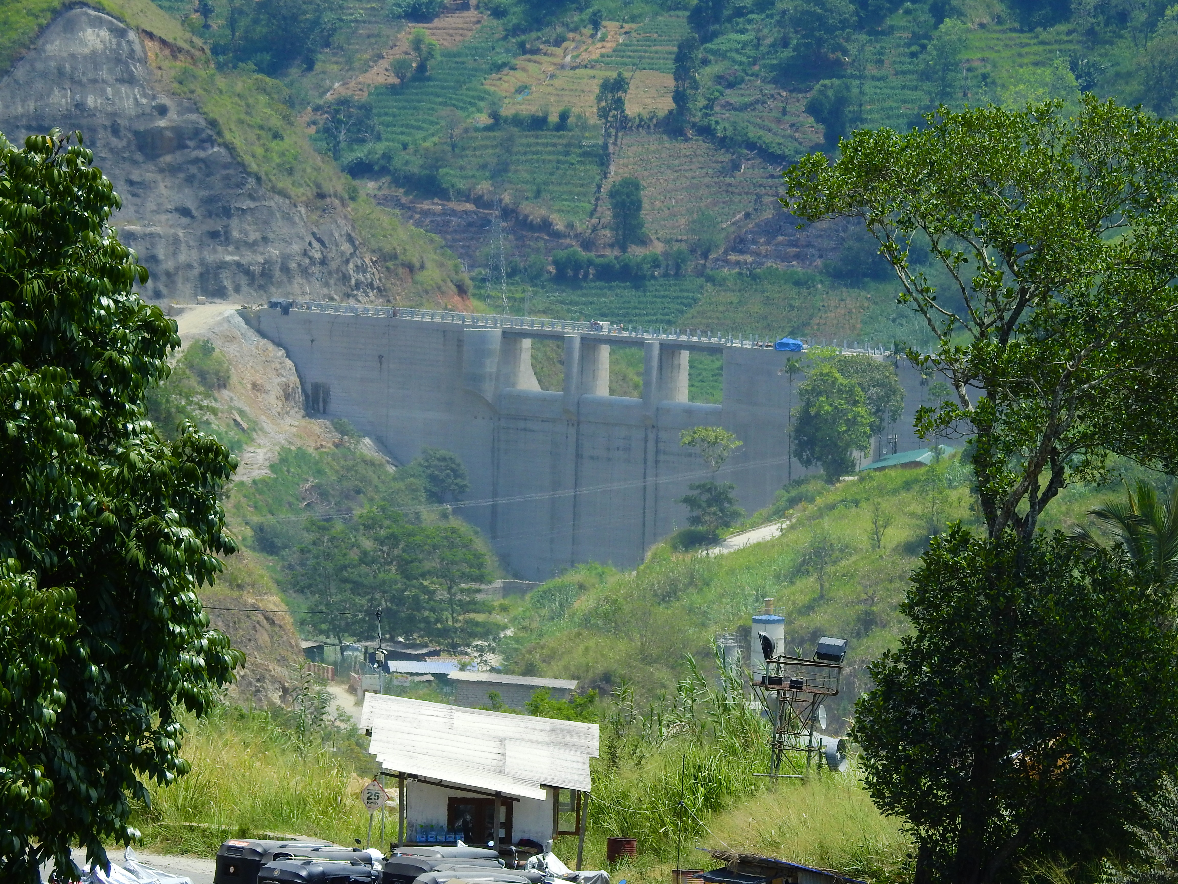 This photo was taken as part of a photo project by Wikimedia Community User Group Sri Lanka, covering current/future hydroelectric dams (and its surroundings) in the Central and Sabaragamuwa provinces of Sri Lanka. User:Rehman handled the photography, while User:Azeez and User:PasinduBR handled the logistics/planning of routes. Description of photo: Dyraaba Dam. Further information on the subject(s) of the photograph may be found in the category/ies of this file.